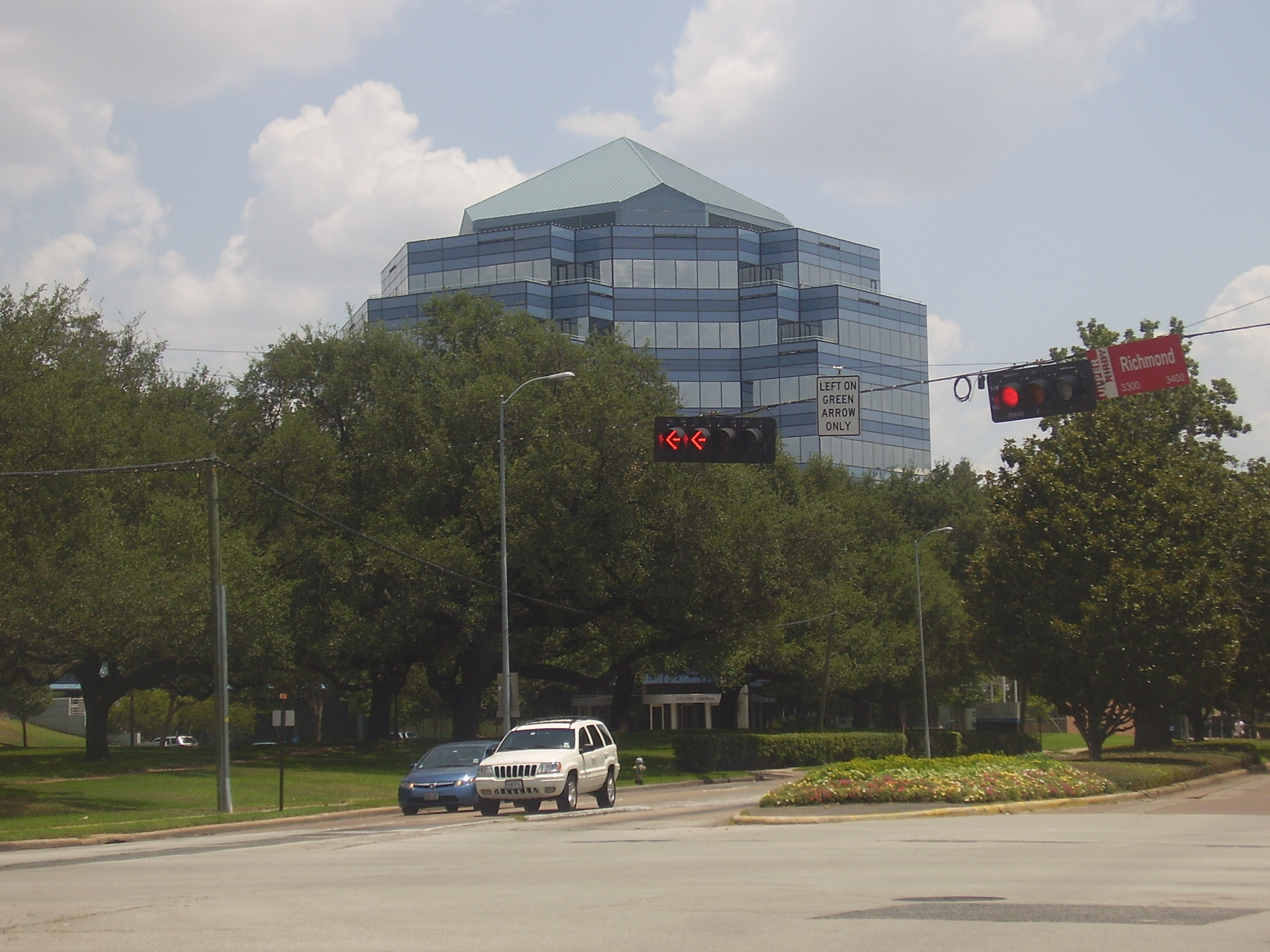 Solvay America headquarters